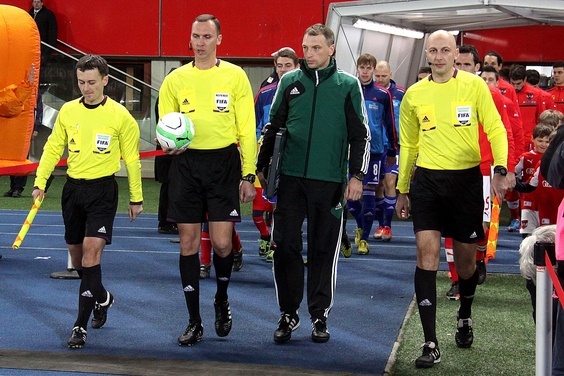 2014 FIFA World Cup qualification (UEFA), Group C: Austria national football team vs. Faroe Islands national football team 6:0 in the Ernst-Happel-Stadion in Vienna at 2013-03-22. – The photo shows from left to right Assistent Referee Oleksandr Korniyko, Referee Oleksandr Berdo, 4. Offizial Anatolii Zhabchenko and Assistent Referee Volodymyr Volodin (all Ukraine).